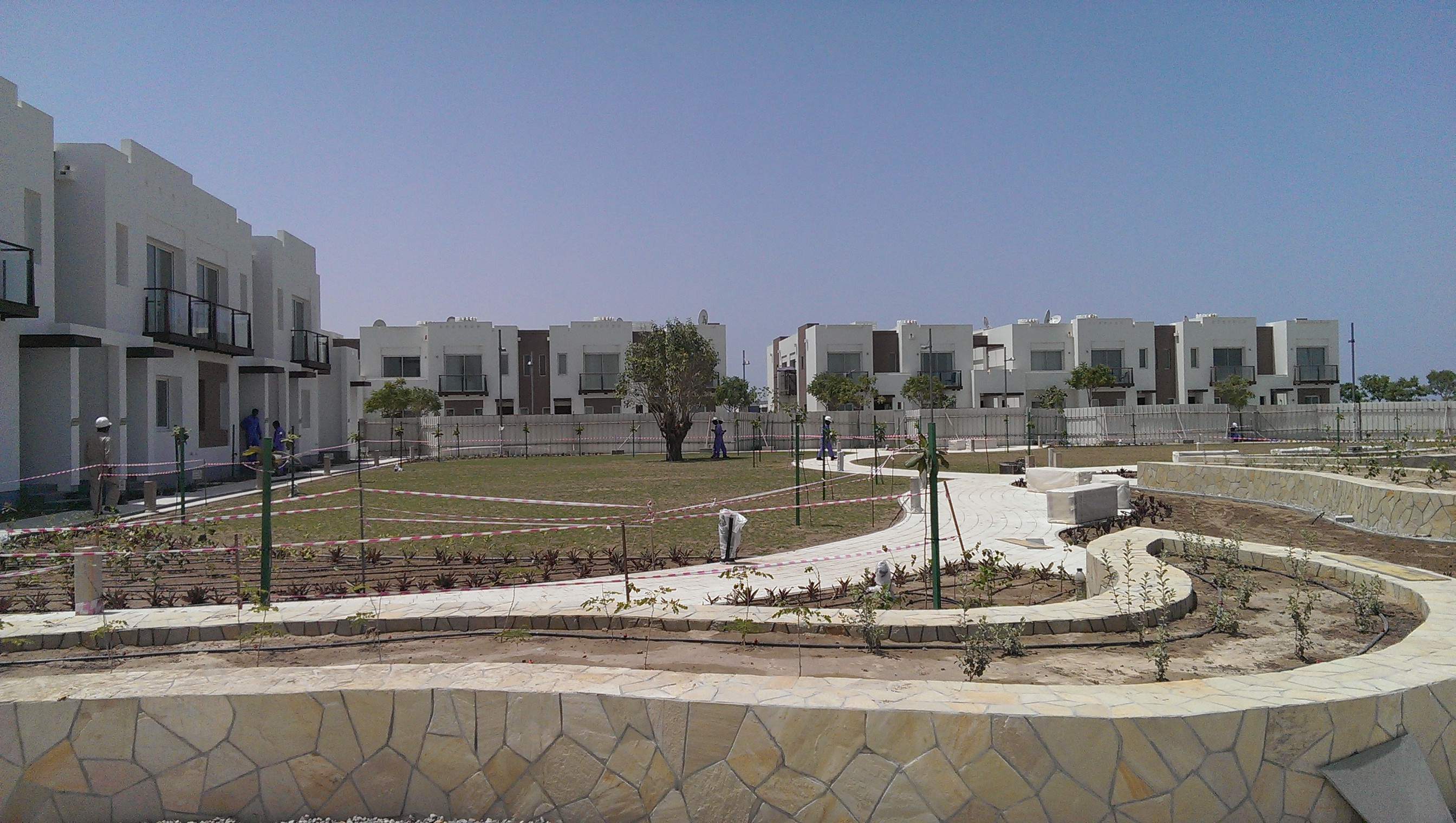 The Wave, Muscat Acacia Garden (Under Construction)